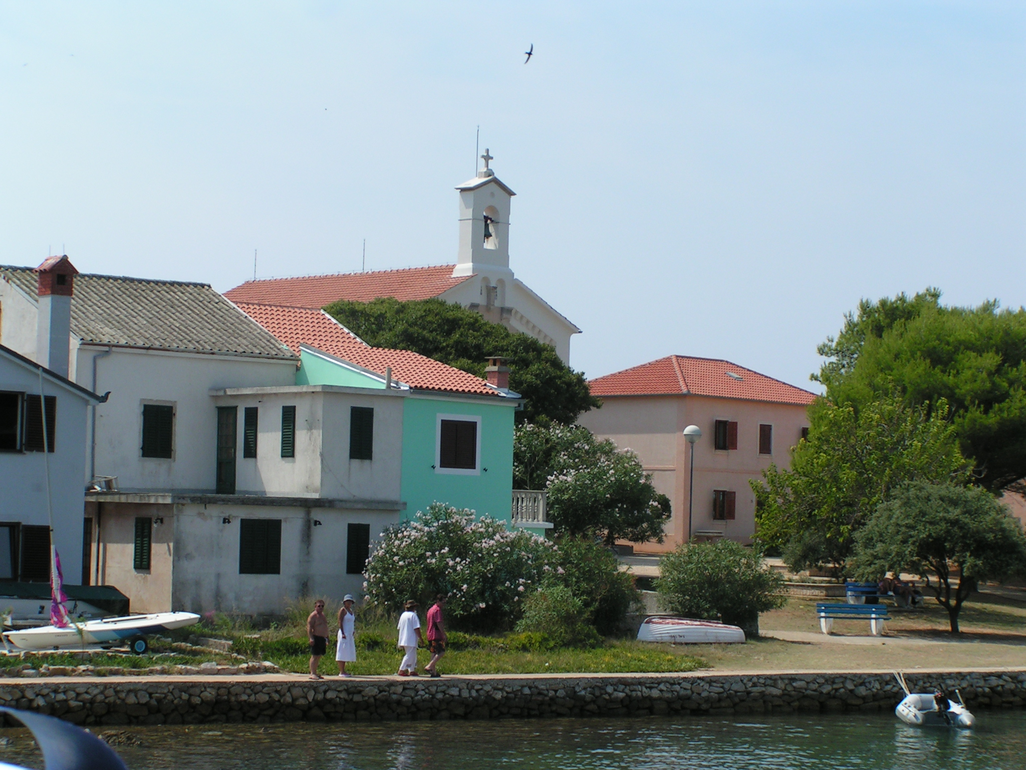 The place of Ilovik in Croatia.